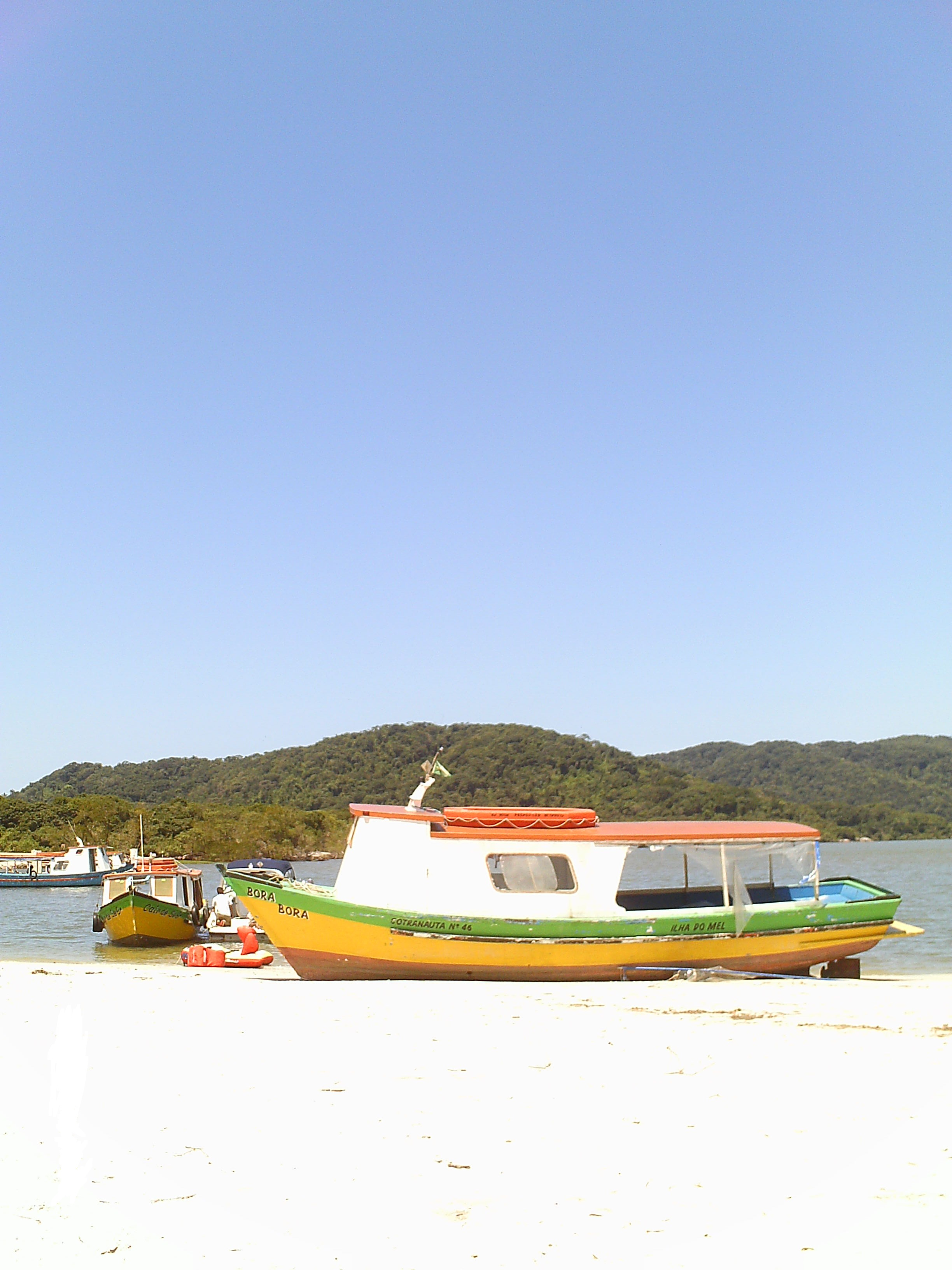 The boat used to the trip between Ilha do Mel and the continent. Paraná, Brazil